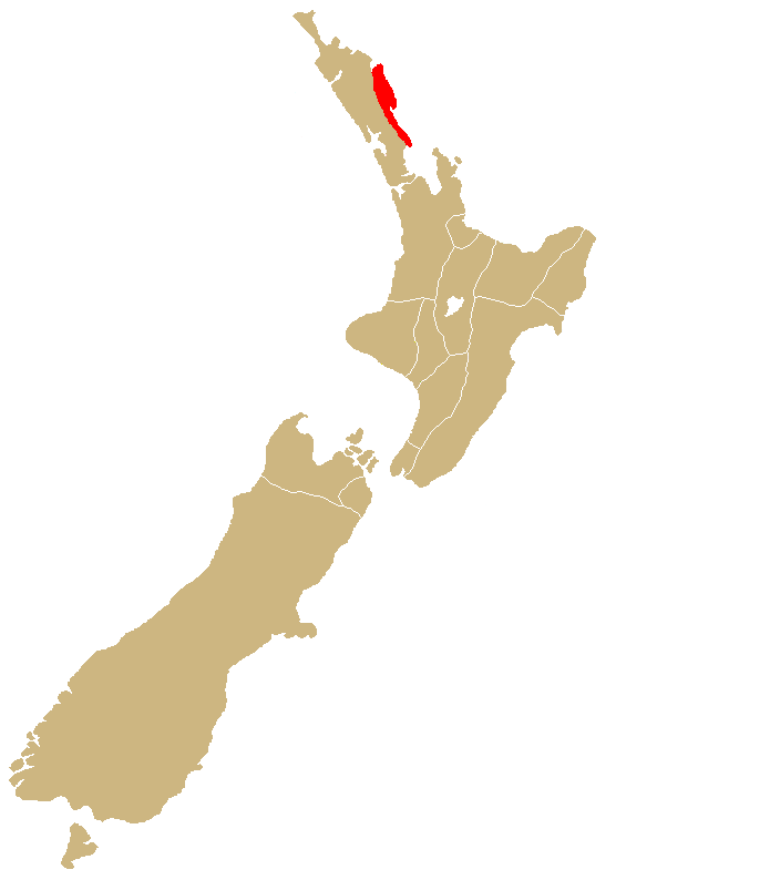 Iwi location map